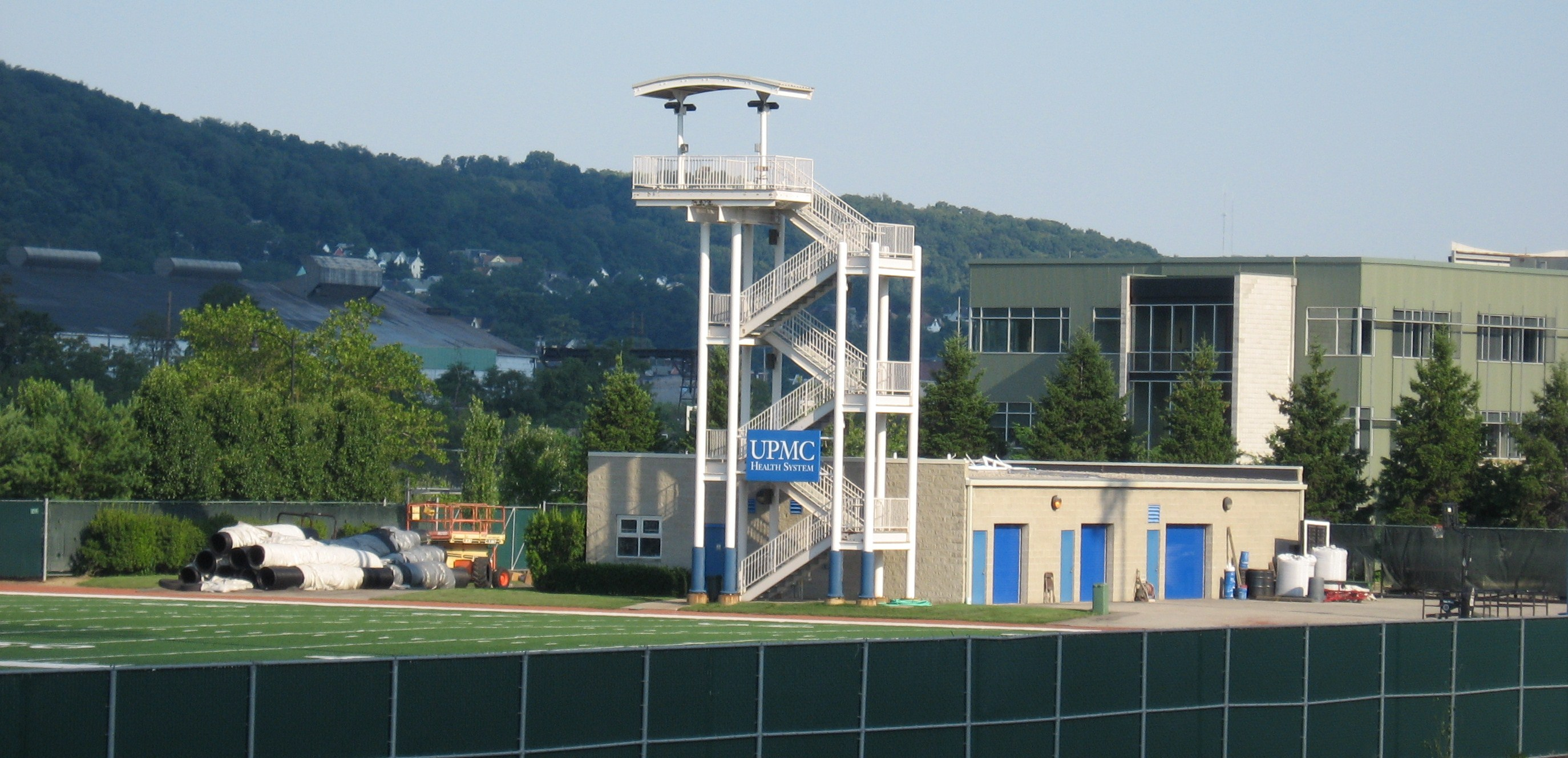 UPMC Sports Performance Complex, practice football field for the Pittsburgh Steelers and Pitt Panthers 40°25′10″N 79°57′21.5″W / 40.41944°N 79.955972°W